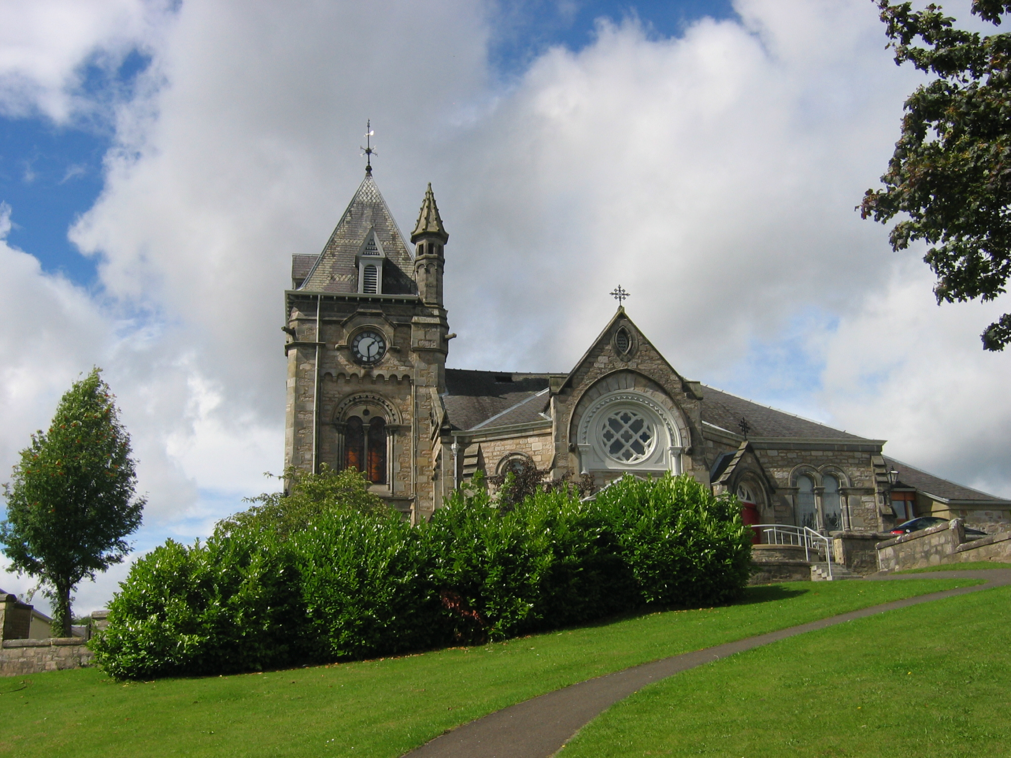 Pitlochry Church of Scotland and Tryst.